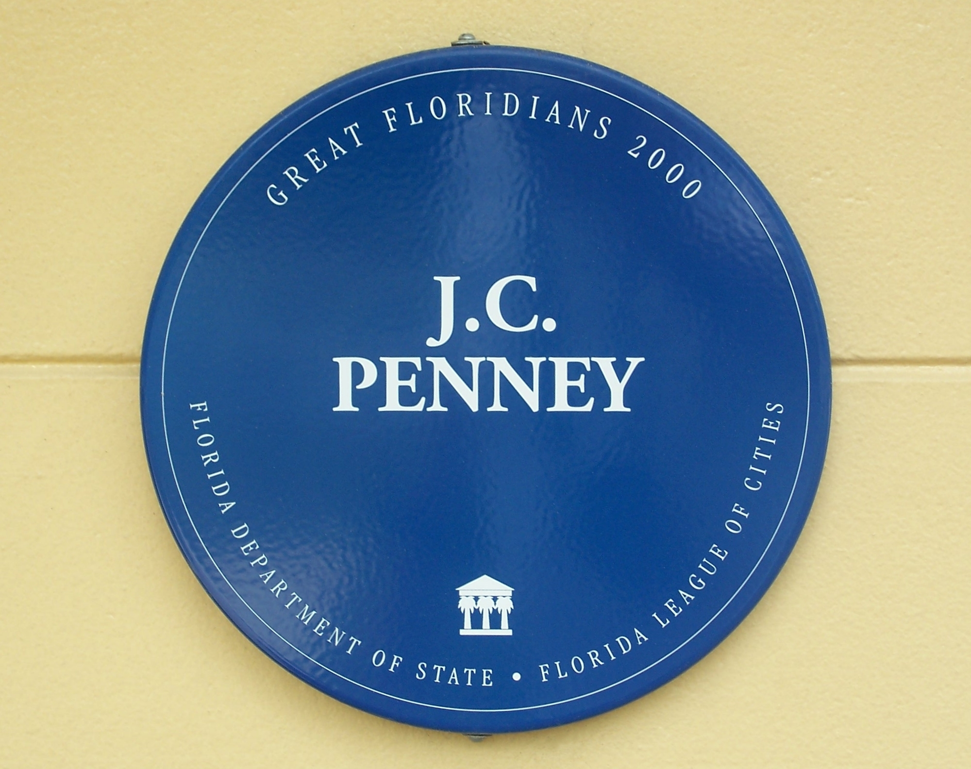 Penney Farms, Florida: Great Floridians plaque at city hall.